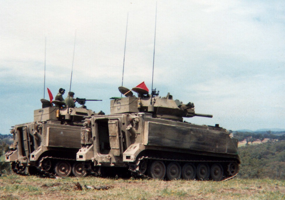 Australian Medium Reconnaissance Vehicles (MRV) from the 1/15th Royal NSW Lancers at a range shoot at Pucapunyal, Victoria in 1988